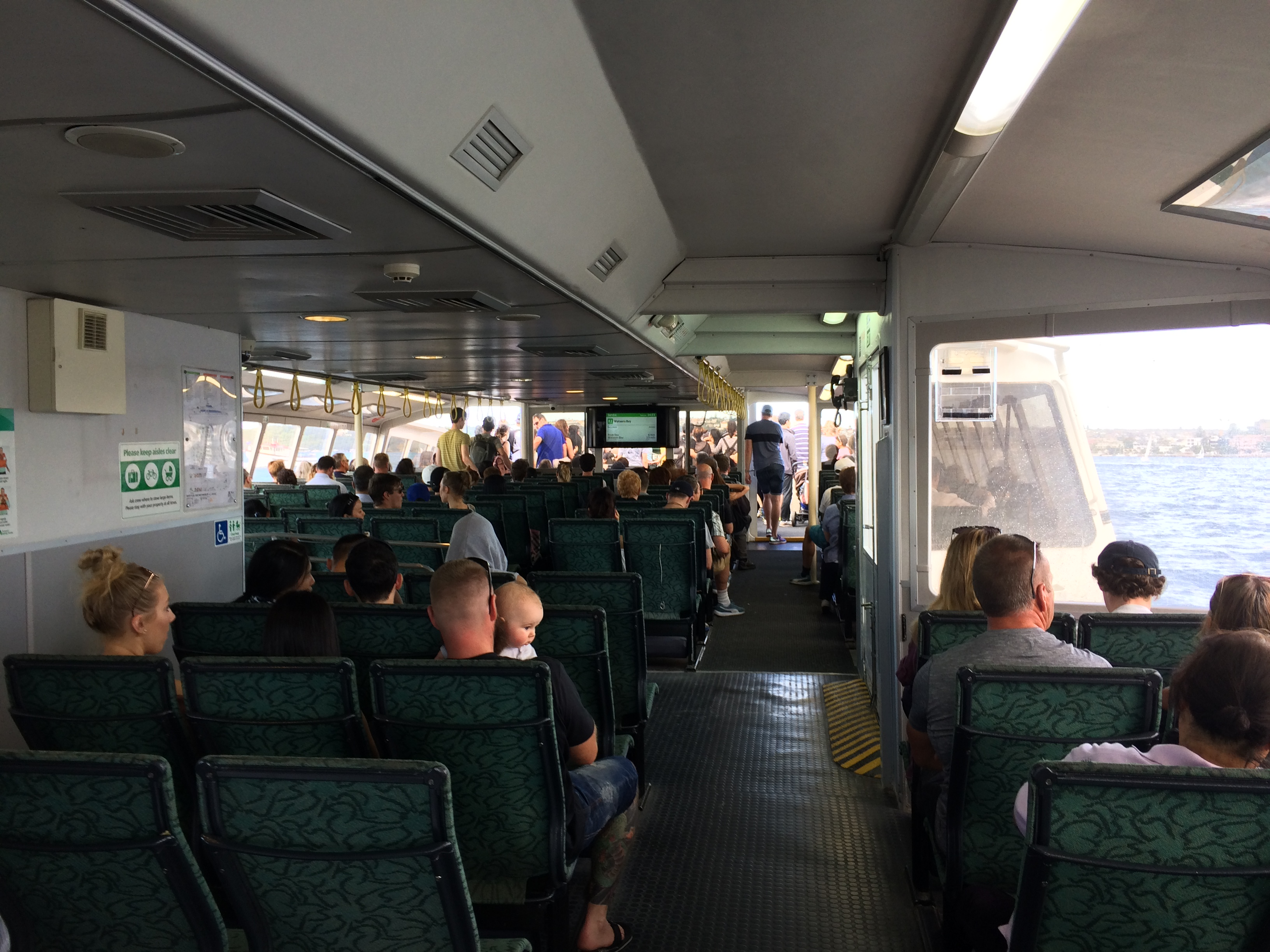 A view from inside the passenger cabin of the Saint Mary MacKillop, looking towards the bow of the ship from the starboard side of the cabin, behind the center entryway. The Saint Mary MacKillop is a SuperCat-class ferry, built in the early 2000s as part of an effort to upgrade the then-ageing Sydney Ferries fleet with brand new, faster, and more comfortable passenger ferries. In this view, the SuperCat's segmented design can be discerned; the entryway cuts into the passenger cabin slightly, allowing for a direct access way into the cabin's open area. This photograph was taken as the ship was crusing across Sydney Harbour, halfway between Circular Quay ferry wharf and Rose Bay ferry wharf, its next stop on the express F7 Eastern Suburbs service route.